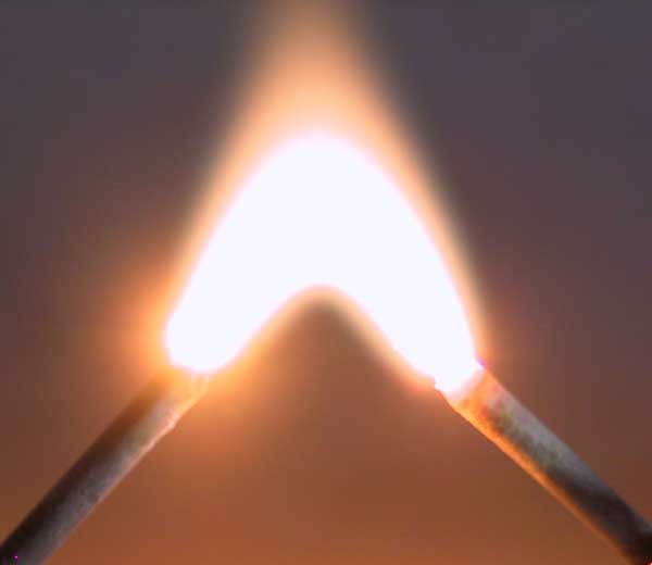 This pic shows an arc between two nails.